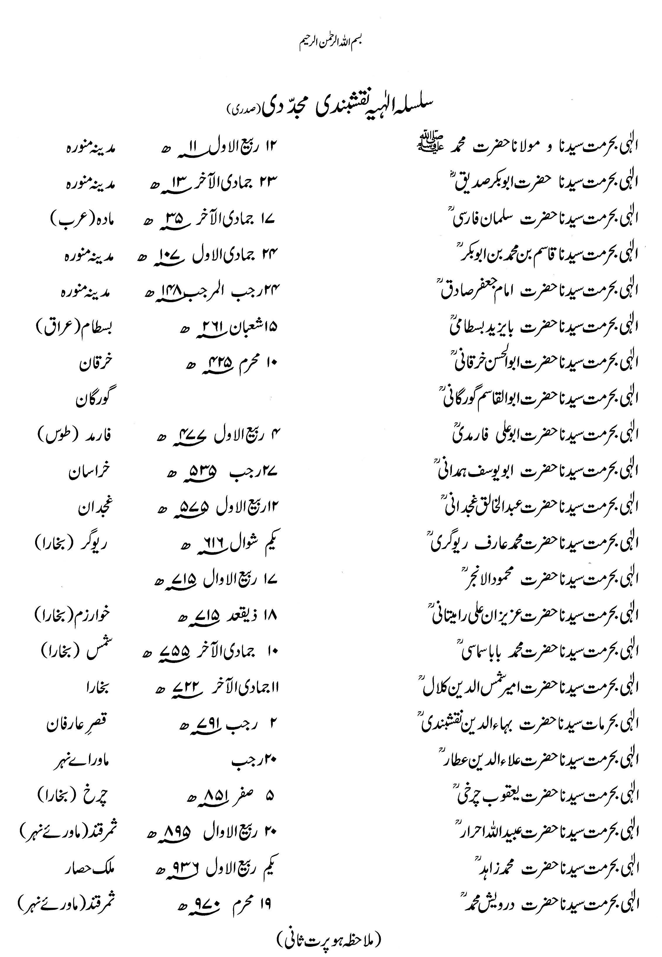 It is Silsila of Naqshbandi Mujadadi